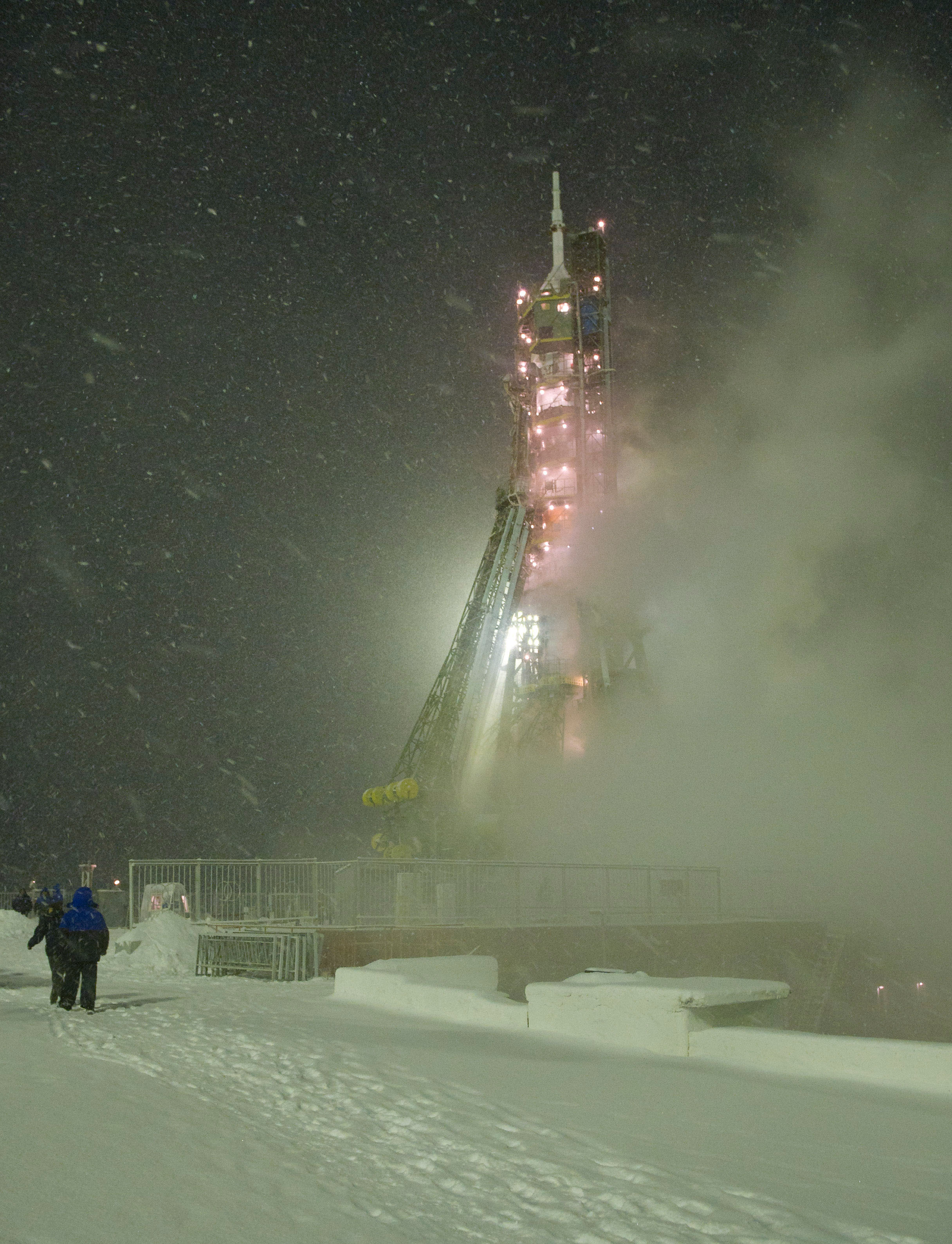 The Soyuz TMA-22 rocket is seen at the Soyuz launch pad during a snow storm the morning of the launch of Expedition 29 to the International Space Station at the Baikonur Cosmodrome in Kazakhstan on Nov. 14, 2011.